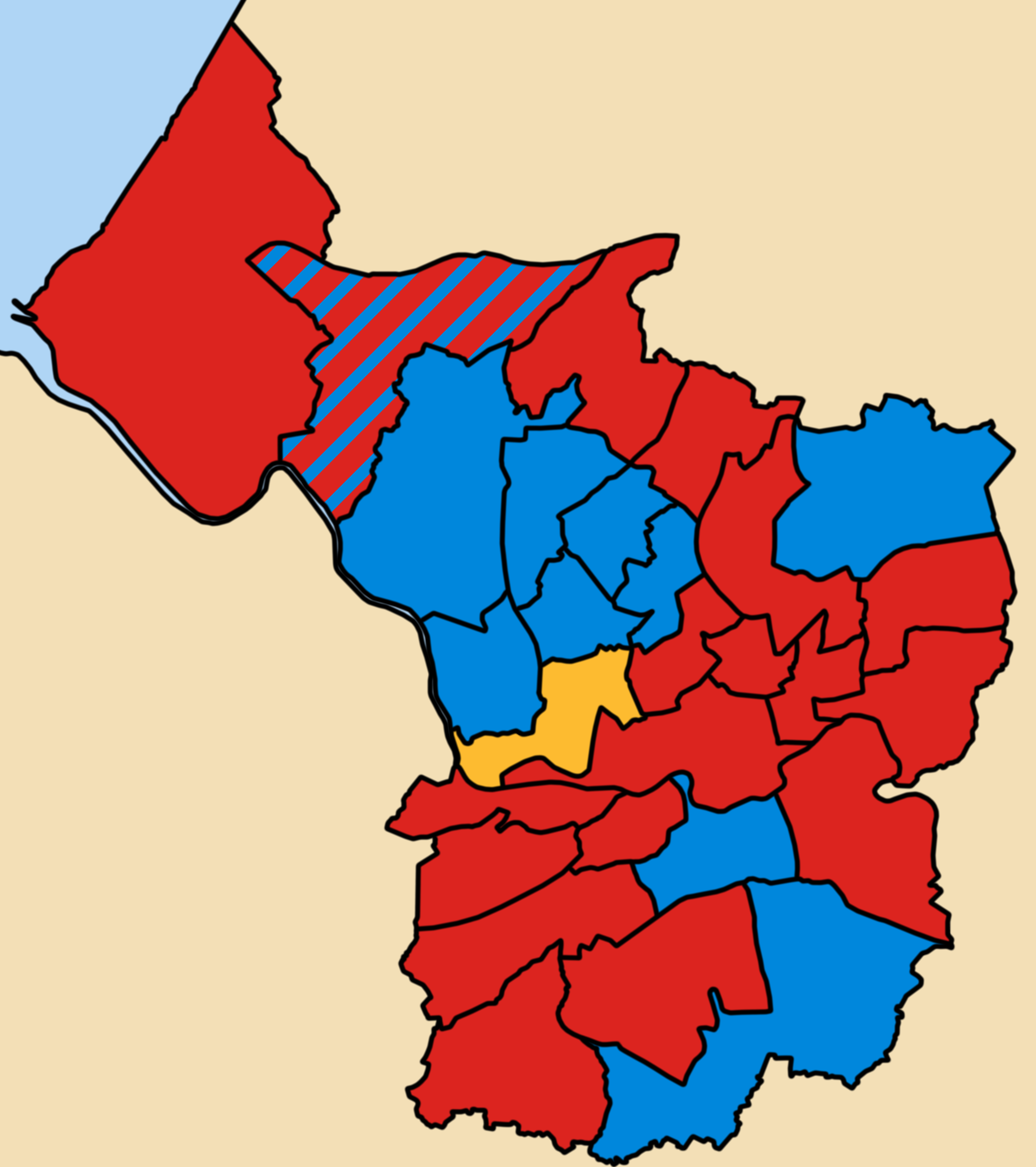 Results of the 1979 local elections in Bristol Colours: Conservative Labour Liberal